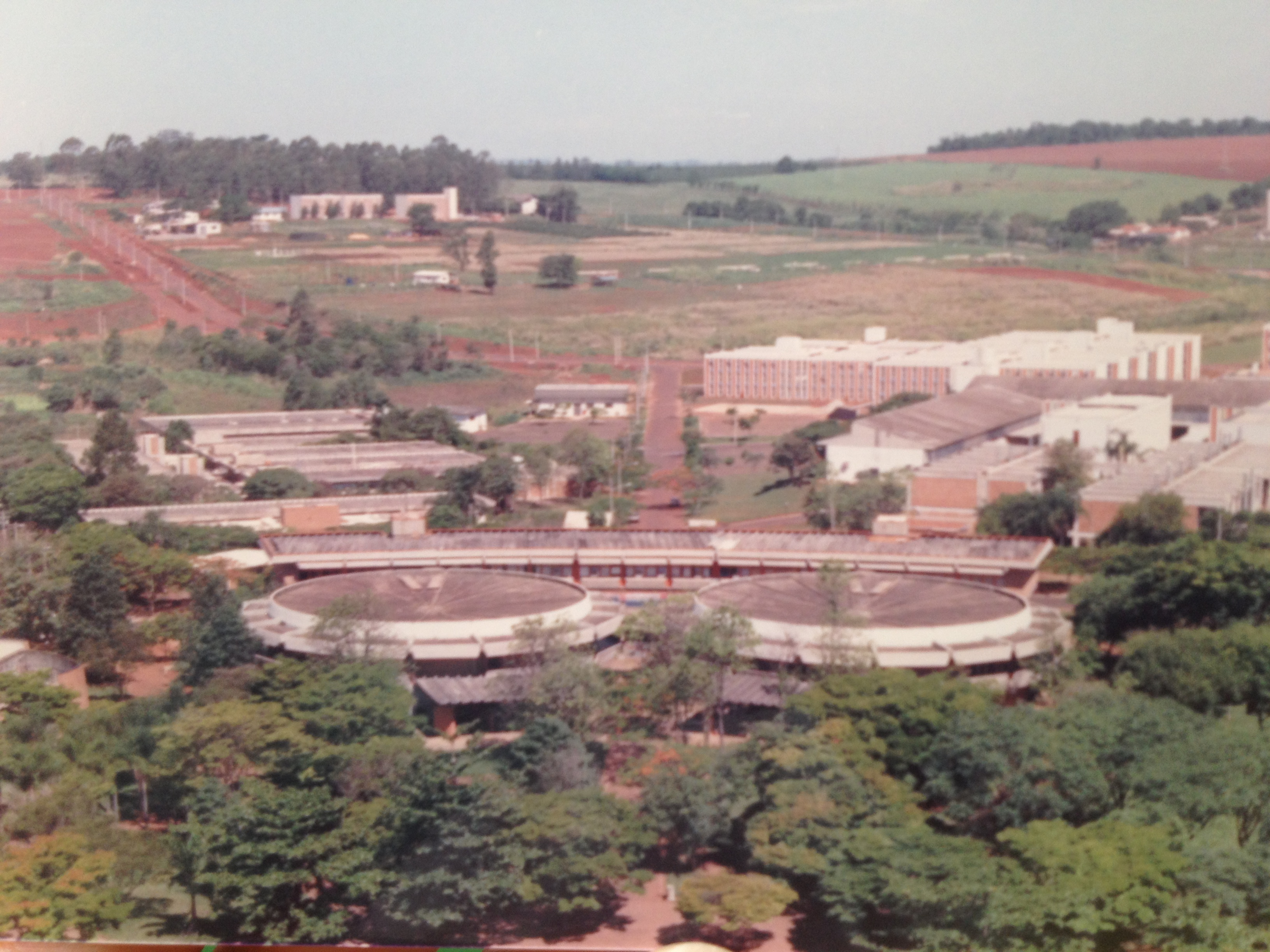 Unicamp campus around 1990